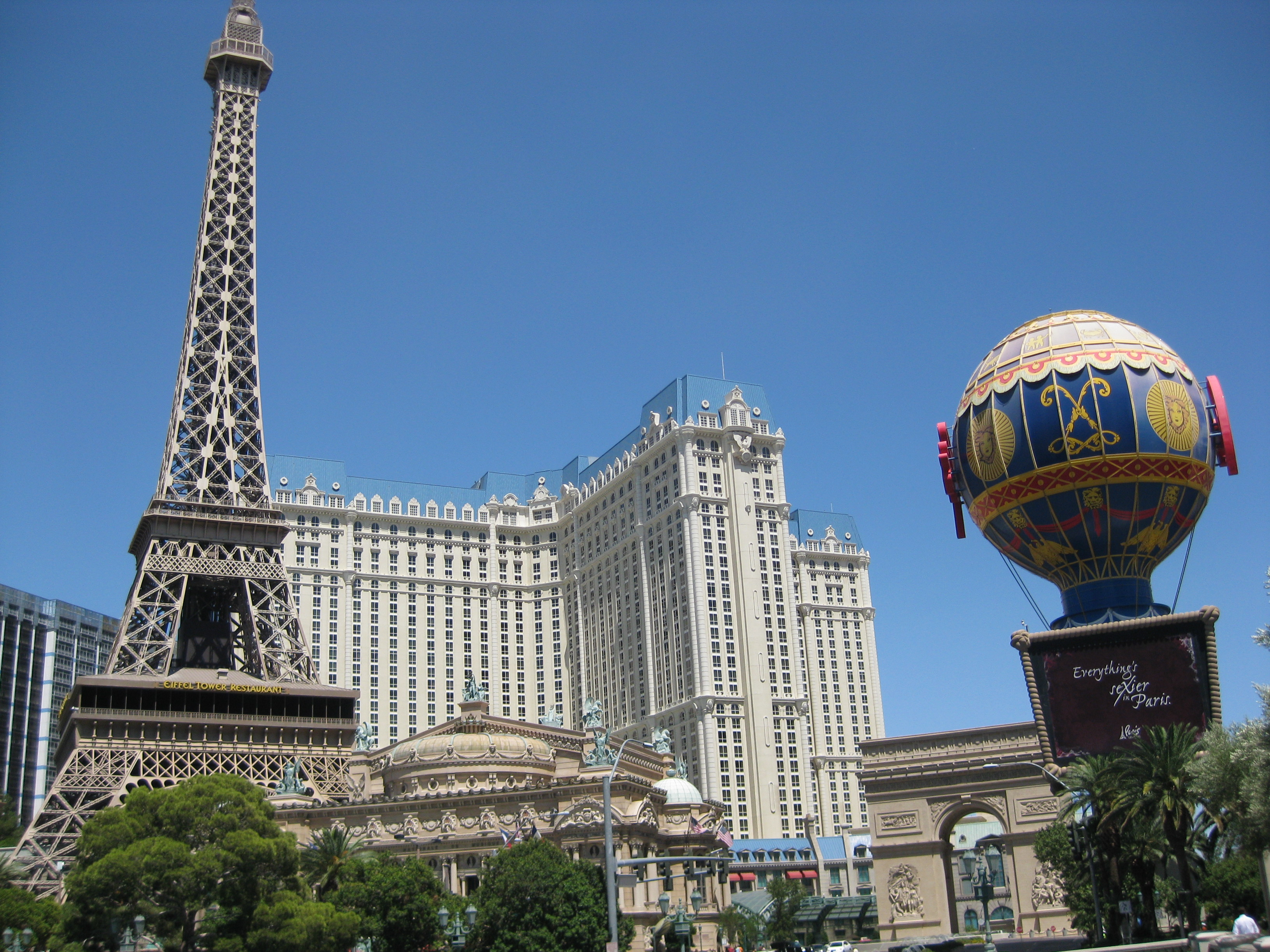 Paris Las Vegas seen from the Bellagio